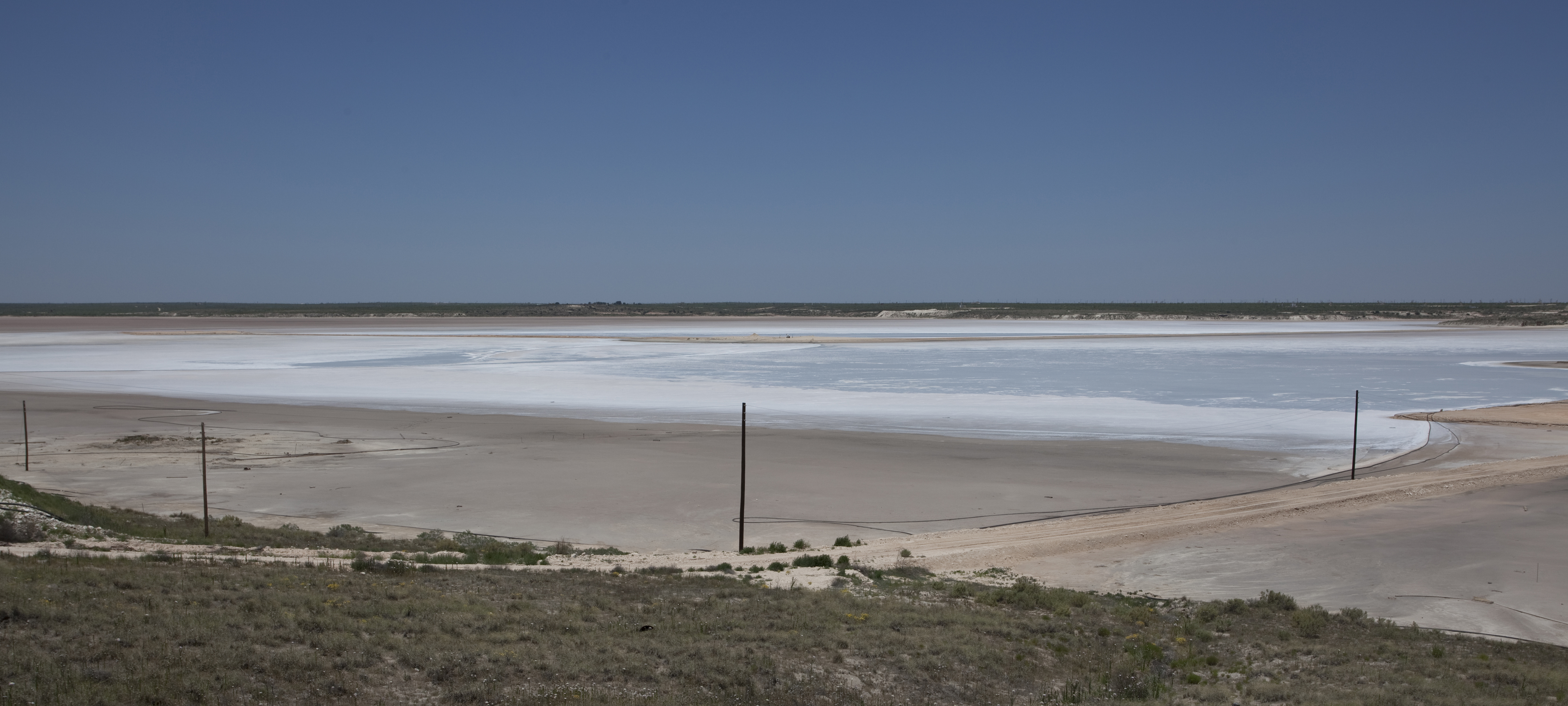 Shafter Lake is a salt playa in Andrews County, Texas. The ghost town of Shafter Lake, Texas, was located to the northwest of the lake.